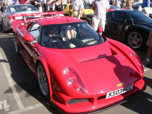 Photograph of the front of a Noble M12 GTO-3R taken by SamH at the 2003 Goodwood Festival of Speed.